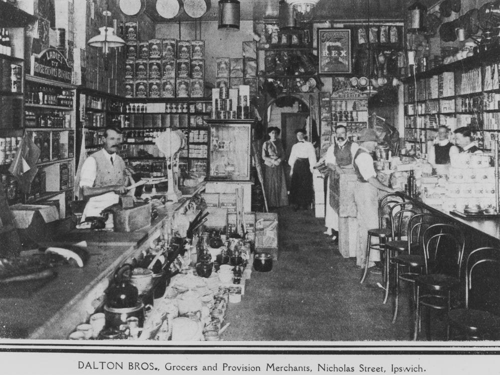 Interior of Dalton Brothers Grocery Shop in Ipswich, ca. 1910 Grocers and provision merchants situated on Nicholas Street in Ipswich. Well-stocked ship with seating available for shoppers while their orders are being made up. Household goods such as teapots and cooking utensils as well as comsumeables.